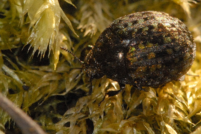 Cytilus sericeus from Commanster, Belgian High Ardennes .